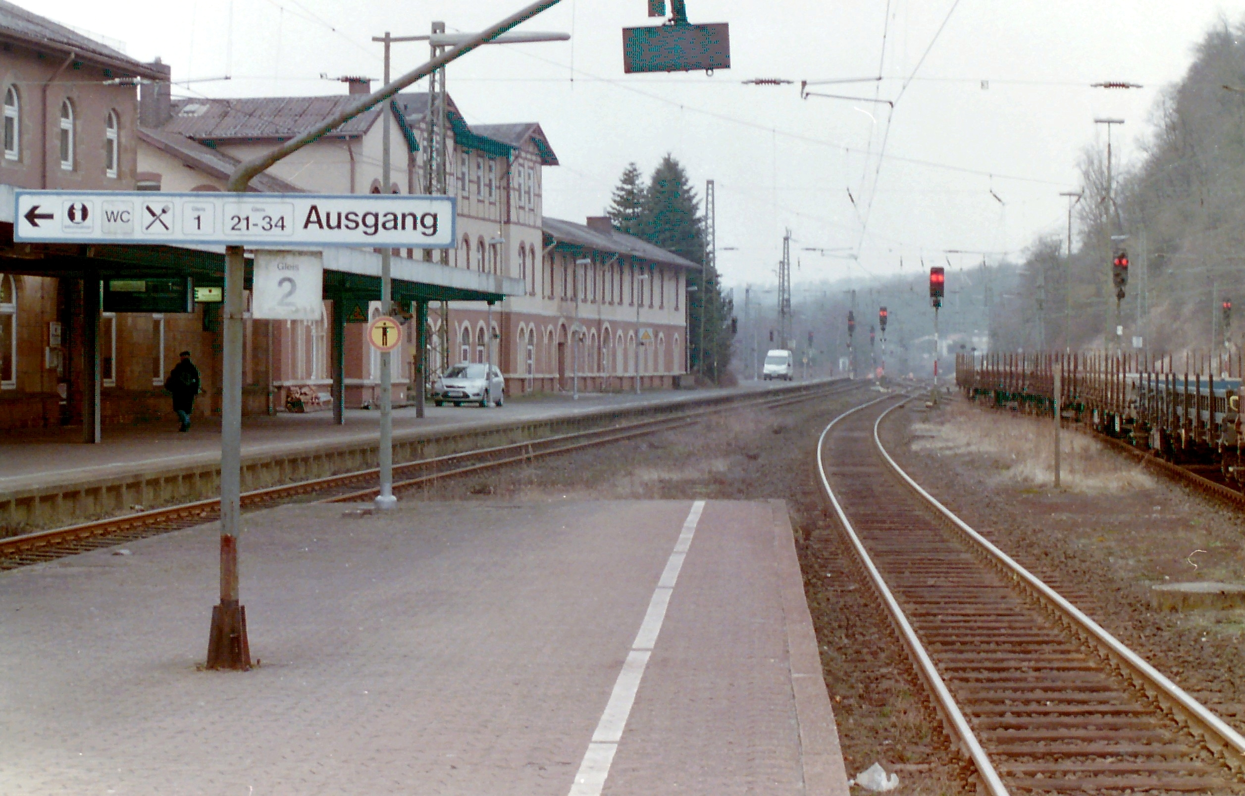 Station Altenbeken, Germany